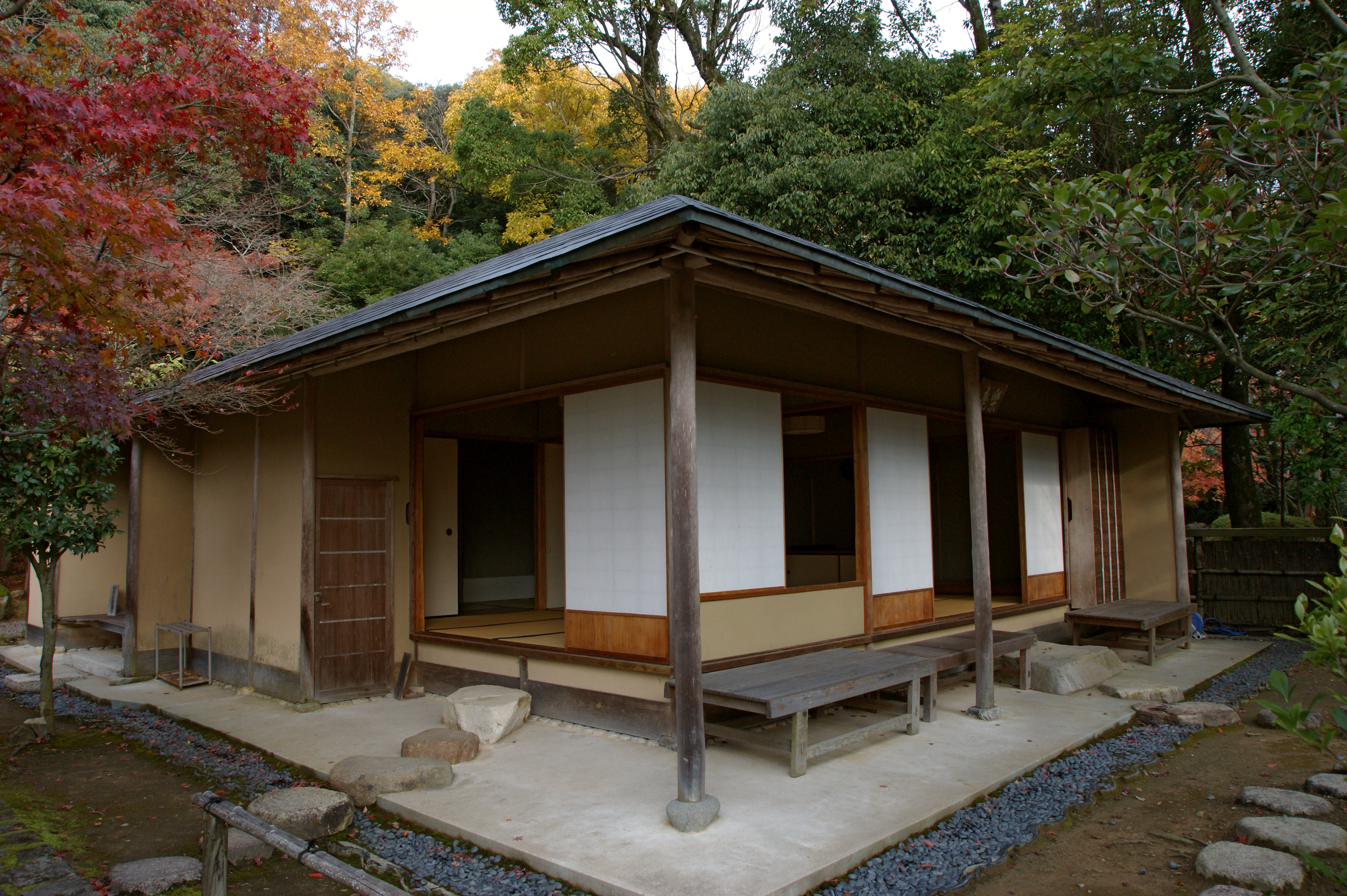 Shuentei, Tatsuno, Hyogo prefecture, Japan